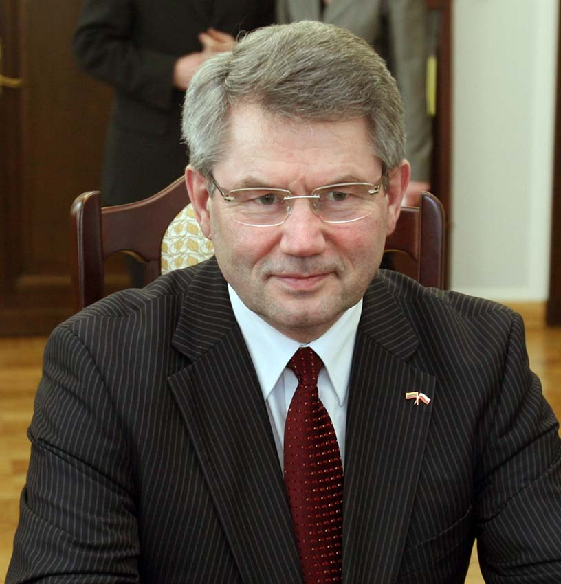 Chairman of the Sejmas of the Republic of Lithuania Viktoras Muntianas in the Polish Senate